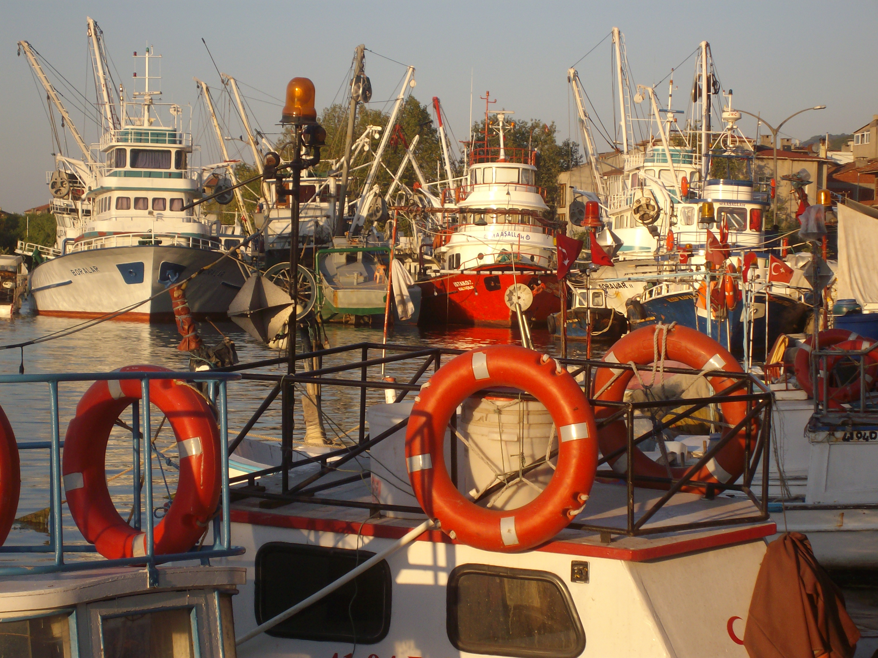 Port of Ereğli (Karamürsel, Kocaeli)